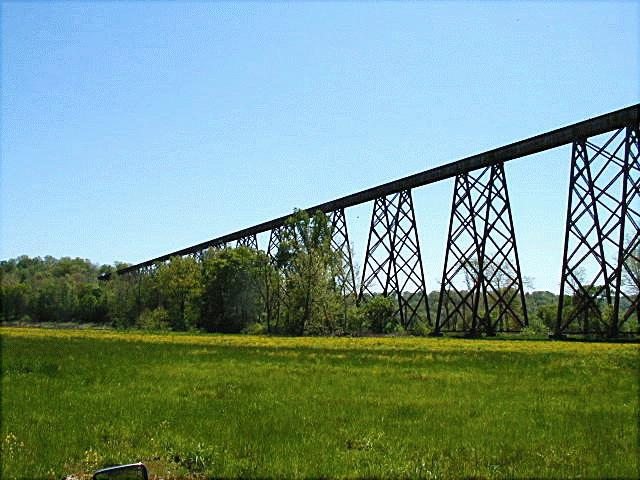 Greene County Indiana Viaduct, also known as the Tulip Trestle.